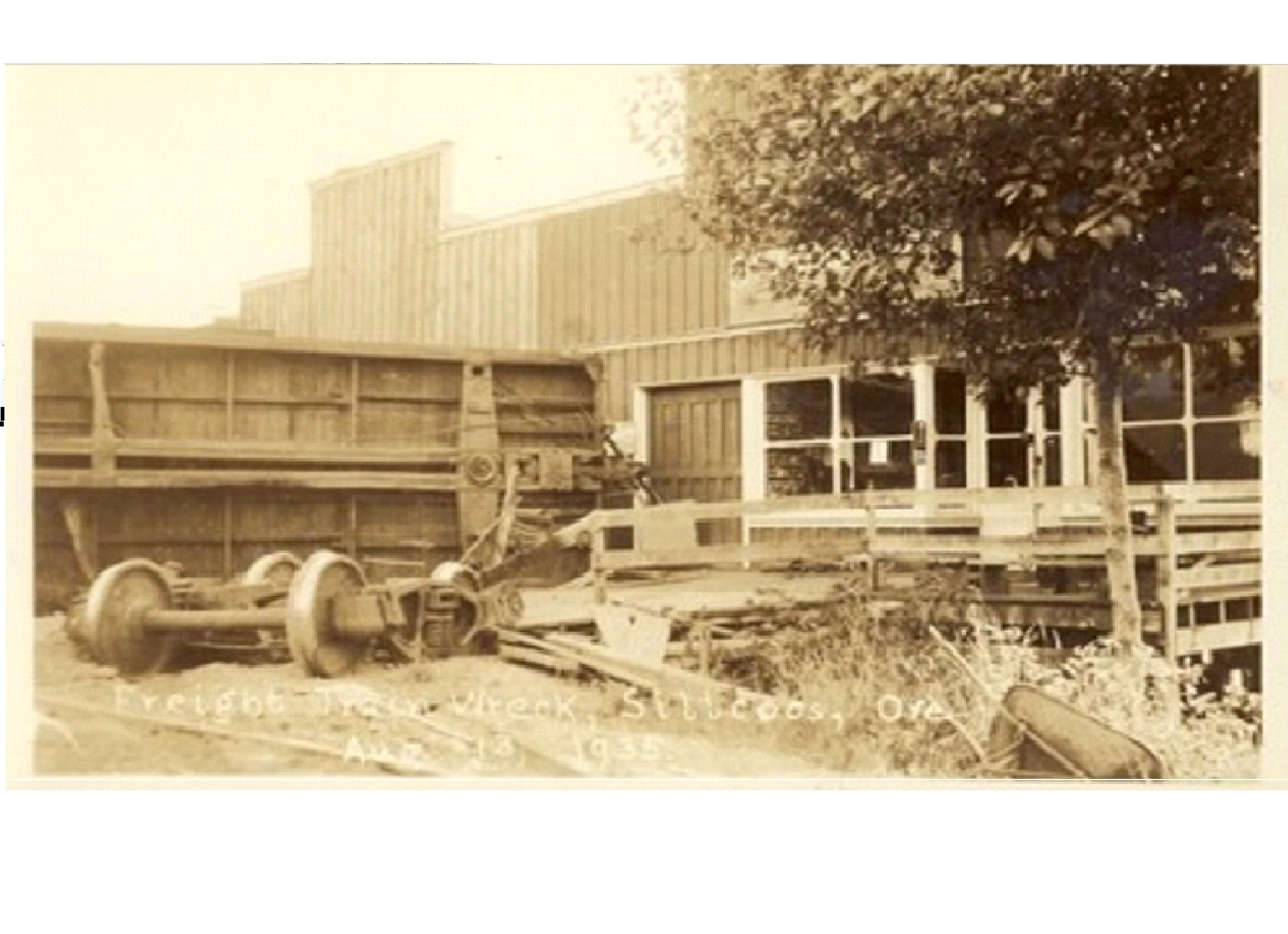 One hobo stuck under the boxcar, dug out by locals.